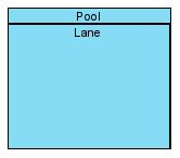 BPMN - Swimlanes